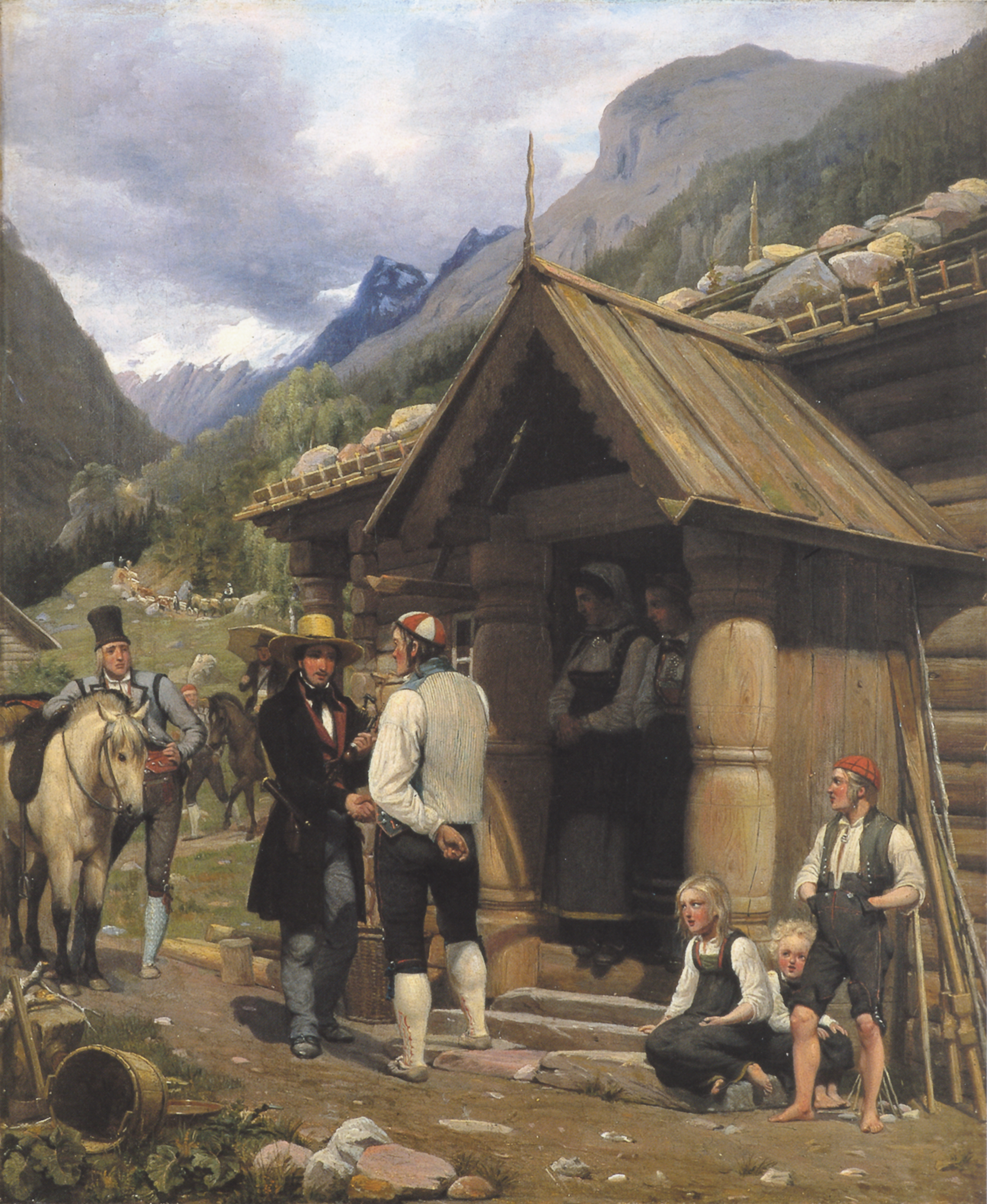 Marstrand went to Norway in the summer of 1835 with his colleague Louis Gurlitt.